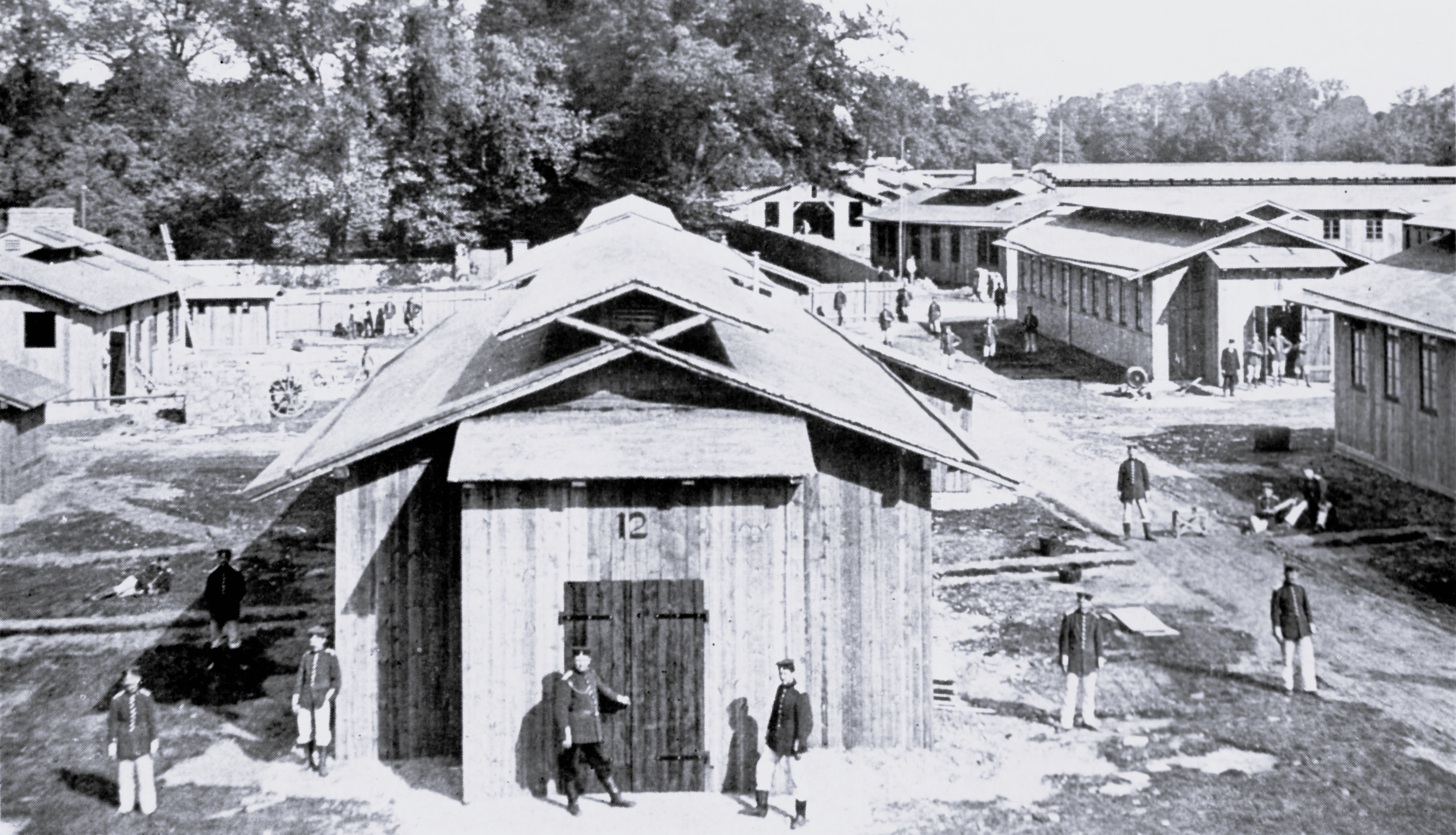 Barracks of Reservelazarett III (reserve military hospital) on Burgfeld square, Lübeck, during World War I